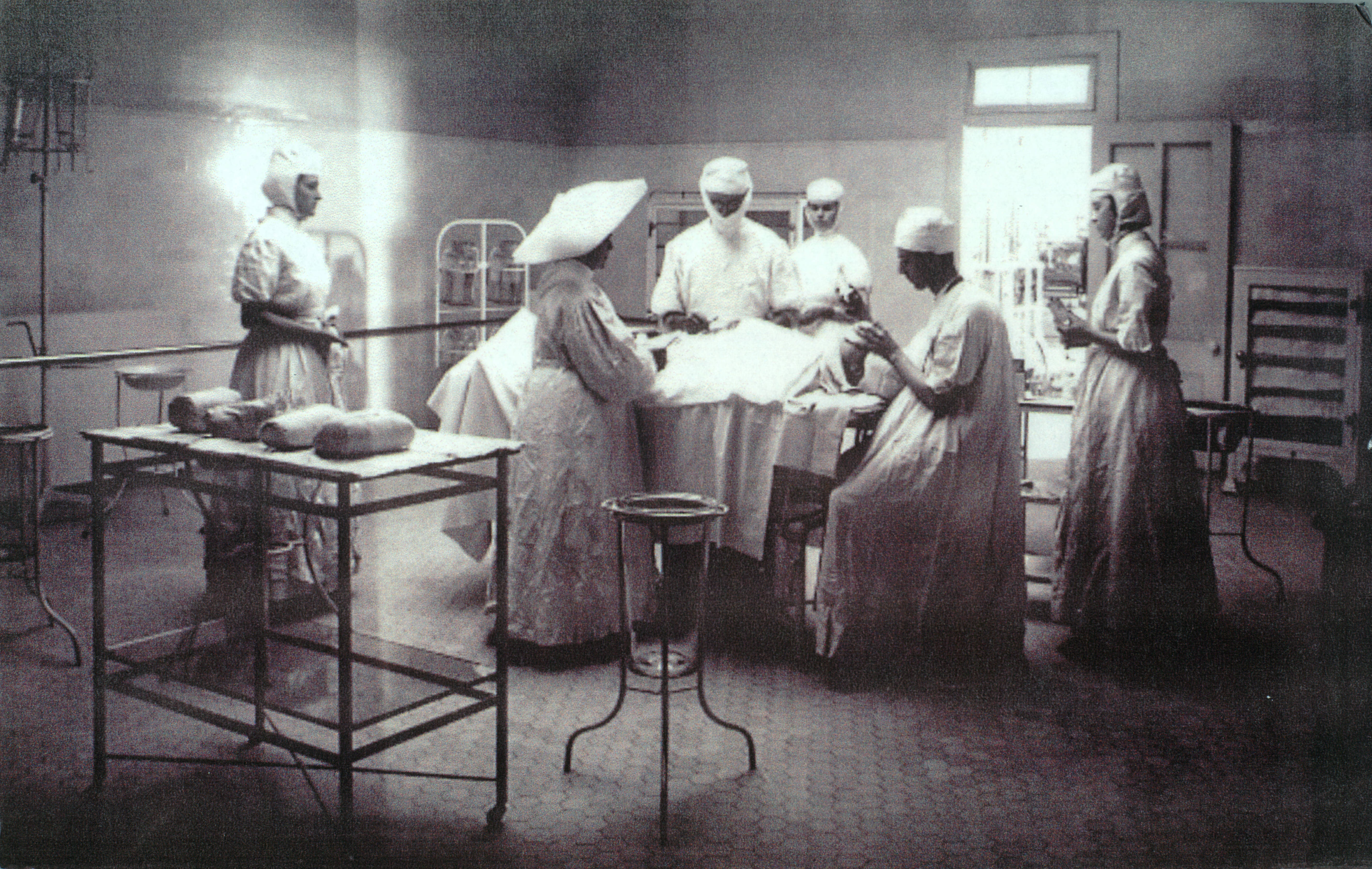 Interior of the Los Angeles Infirmary, 1908 Photograph of an interior view of the Los Angeles Infirmary (later, Saint Vincent's Hospital), Sunset and Beaudry, 1908. A group of six nurses and doctors surround a patient on an operating table. Legacy Record ID: exbt-m147 Filename: exbt-LAS-11 Access Conditions: telephone 213-484-7940; fax 213-207-5837 Coverage date: 1908 Part of collection: Library Exhibits Collection Type: images Part of subcollection: Visual and Virtual Paths to L.A. Community Archives and Collections, Doheny Memorial Library, Fall 2002 Subject (Corporate Name): Los Angeles Infirmary Publisher (of the Digital Version): University of Southern California. Libraries Geographic Subject (State): California Archival file: exbt_Volume11/exbt-LAS-11.tiff Geographic Subject (County): Los Angeles Geographic Subject (Roadway): Sunset and Beaudry Identifying Number: item no: 11 Compiler: Los Angeles as Subject Repository Name: St. Vincent Medical Center Historical Conservancy Provenance: St. Vincent Medical Center Historical Conservancy Rights: public domain Repository Address: 2131 W. Third St., Los Angeles, CA 90057 Geographic Subject (City or Populated Place): Los Angeles Date created: 1908 Format (aat): photographs Repository Geographic Subject (Country): USA